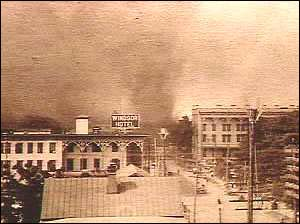 Great Fire of 1901, in Jacksonville, Florida, United States.